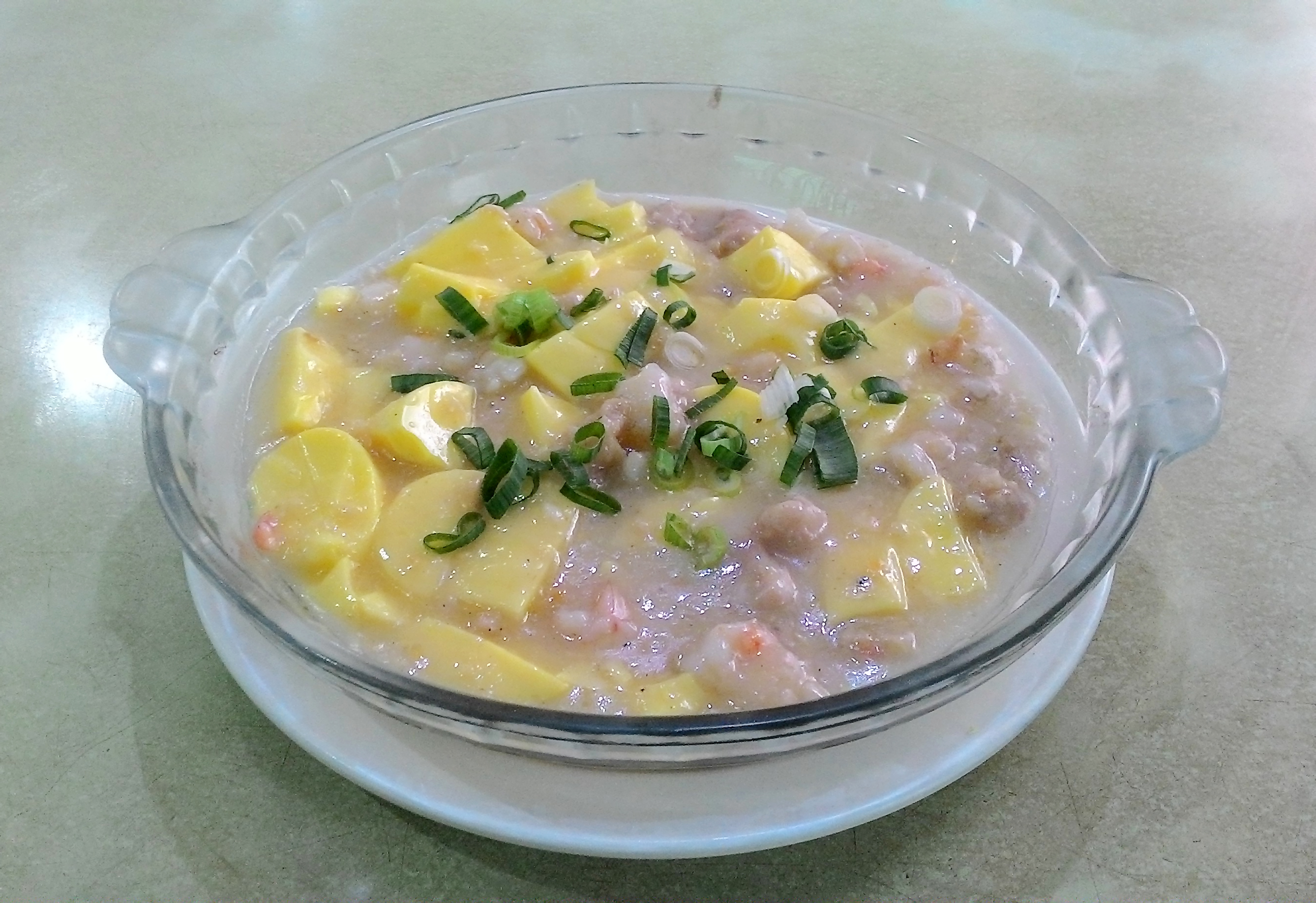 Mun Tahu, a savoury Chinese Indonesian tofu dish, made from soft silken egg tofu with shrimp, chicken and leeks, in thick and savoury white sauce. Served in Bakmi Gang Kelinci restaurant, Pasar Baru, Central Jakarta, Indonesia.